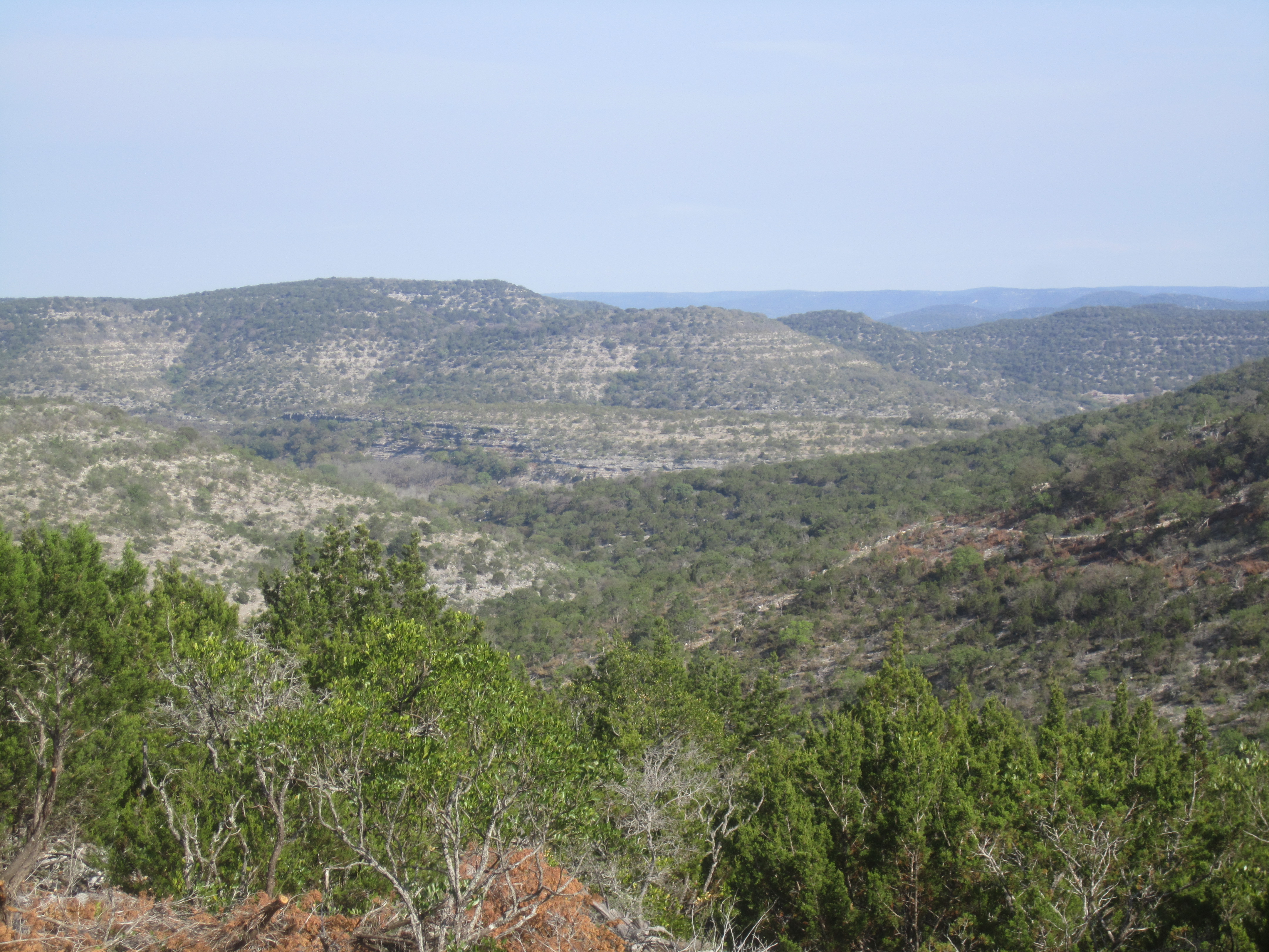 I took photo with Canon camera in Texas Hill Country south of Rocksprings, TX.